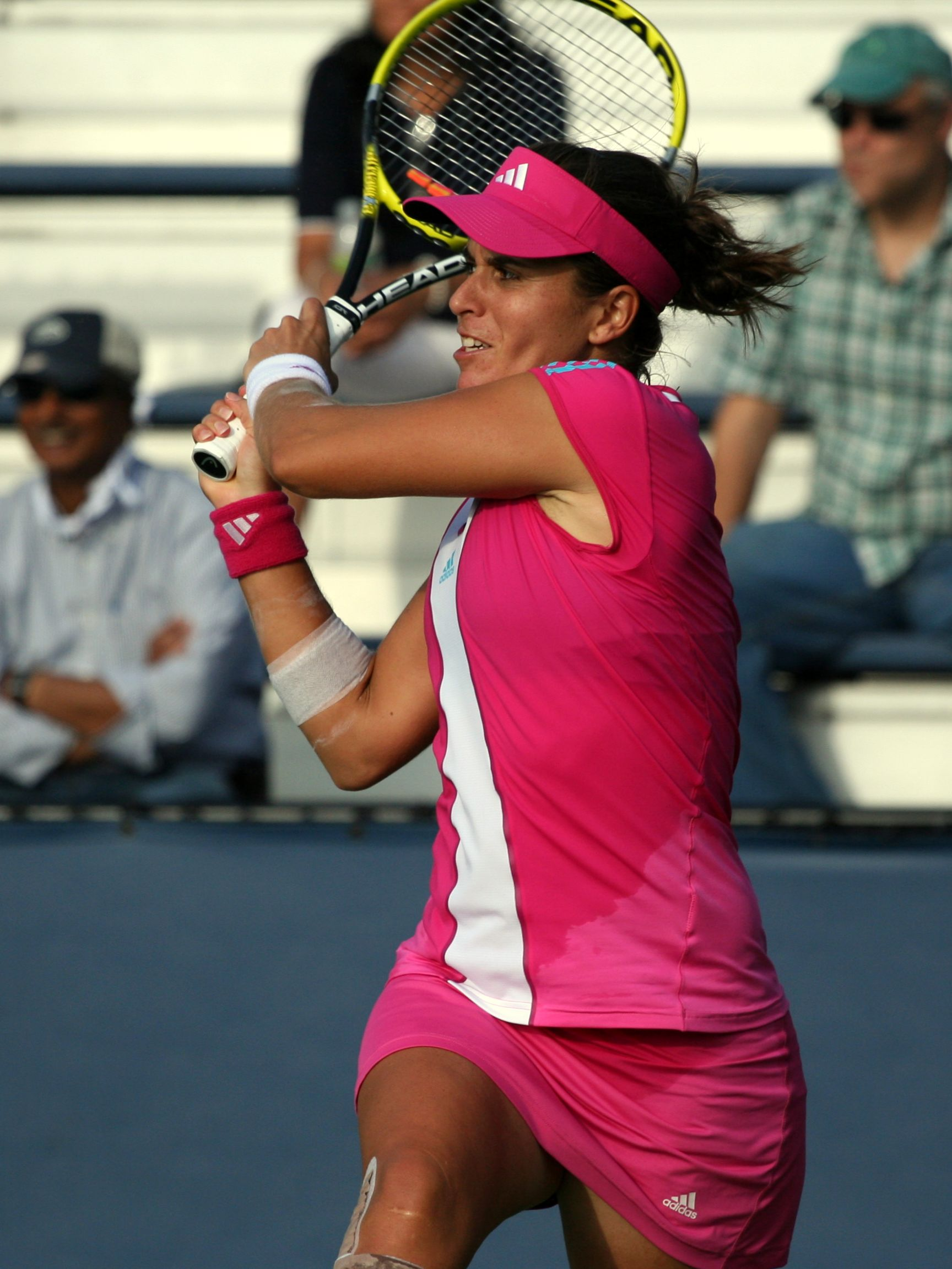 U.S. Open Monday, Aug. 29, 2011